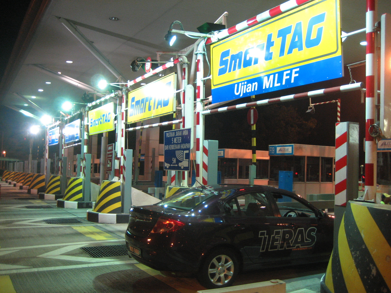 Multi Lane Free Flow (MLFF) trial system at Lebuhraya Damansara-Puchong (LDP), Penchala Toll Plaza, Petaling Jaya.